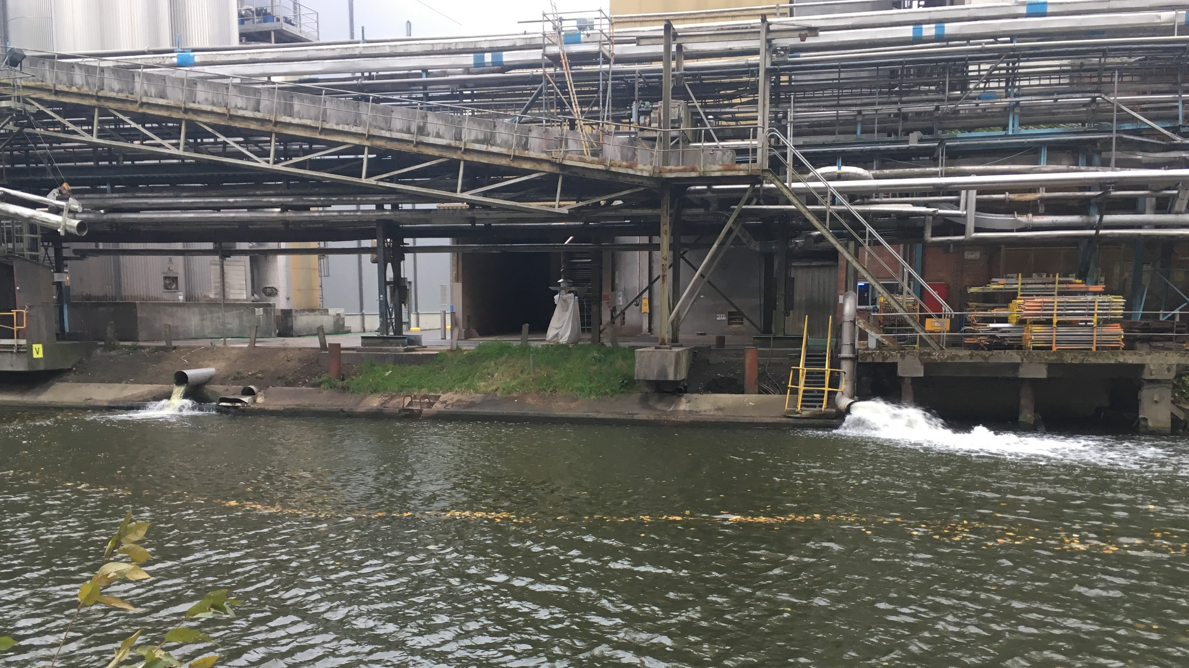 Wastewater discharge by the Tereos Syral factory by the Dender river in Aalst, Belgium